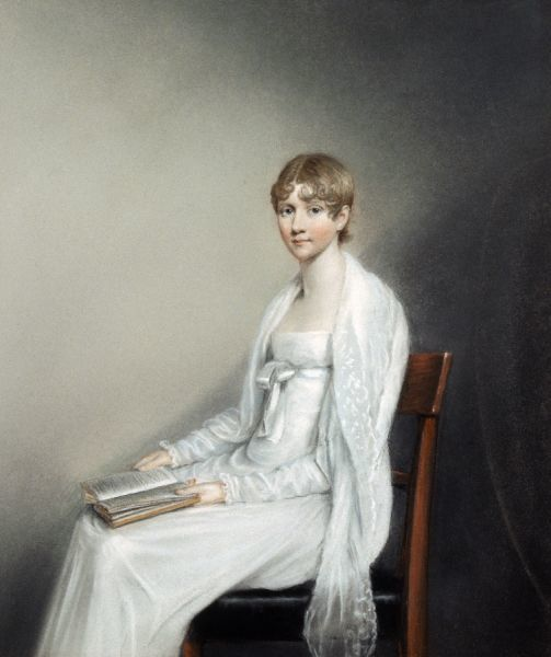 Caroline Darwin (b 1800) at the age of 16. Now in the collection of Down House, Downe, Kent/ Darwin Heirlooms Trust.